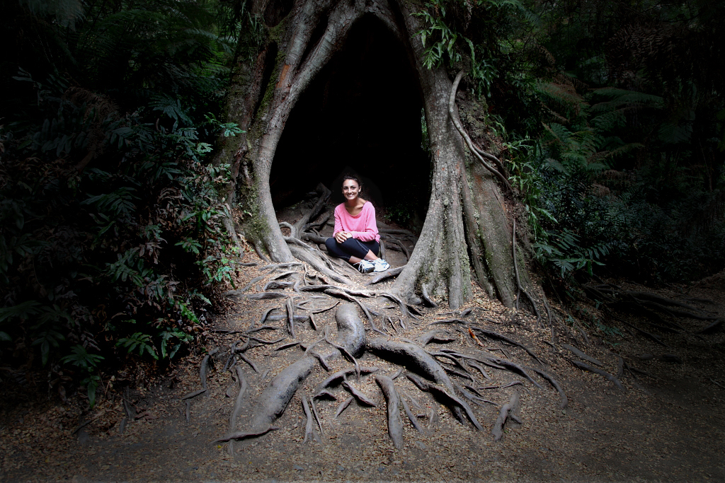 Maits Rest walking trail winds through a rainforest in the Otway Ranges near Apollo Bay in Victoria. It is part of the Great Otway National Park. We stumbled upon this enormous tree which looked like something straight out of a fairytale.